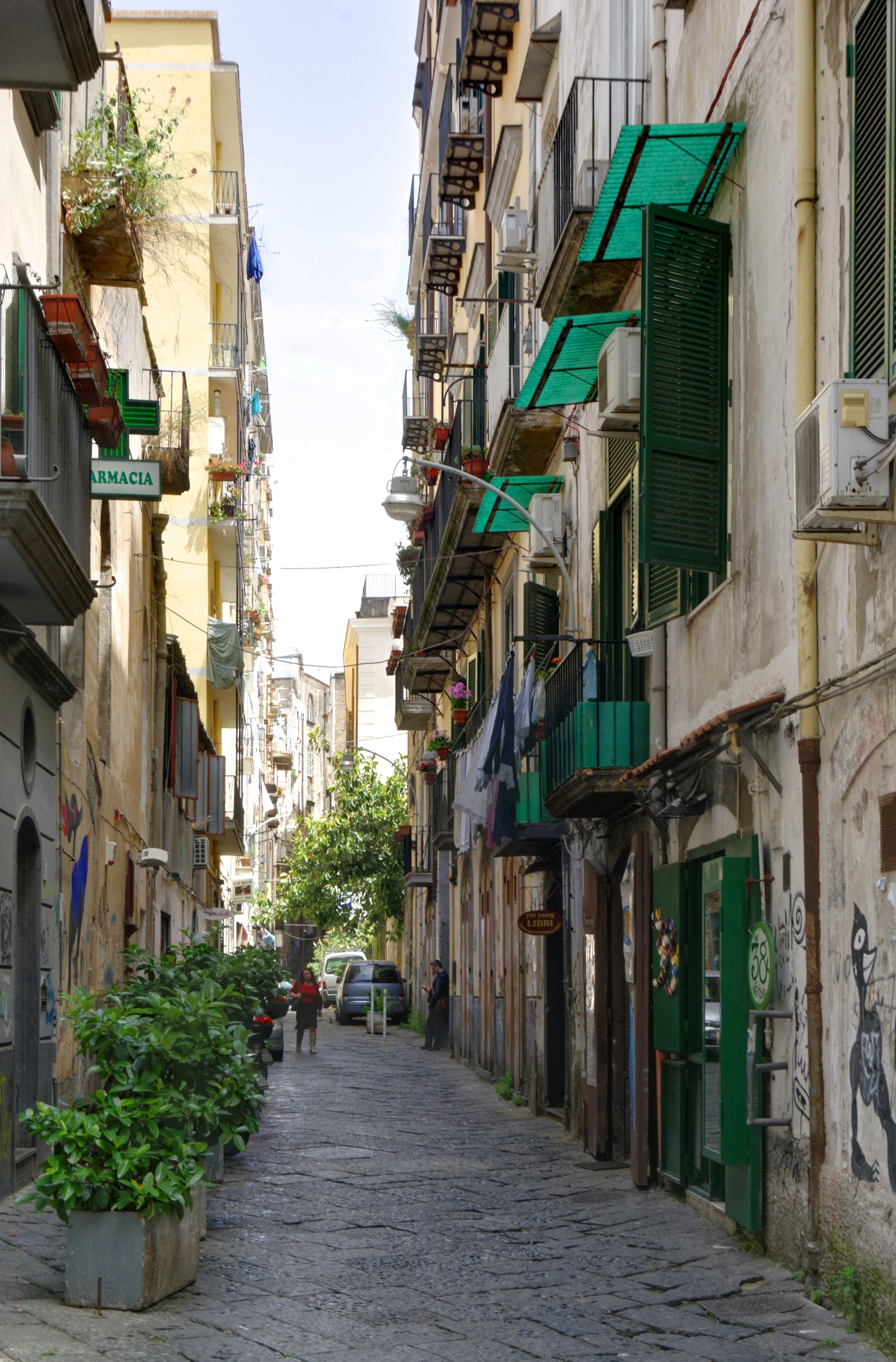 Naples, Vico Pallonetto Santa Chiara